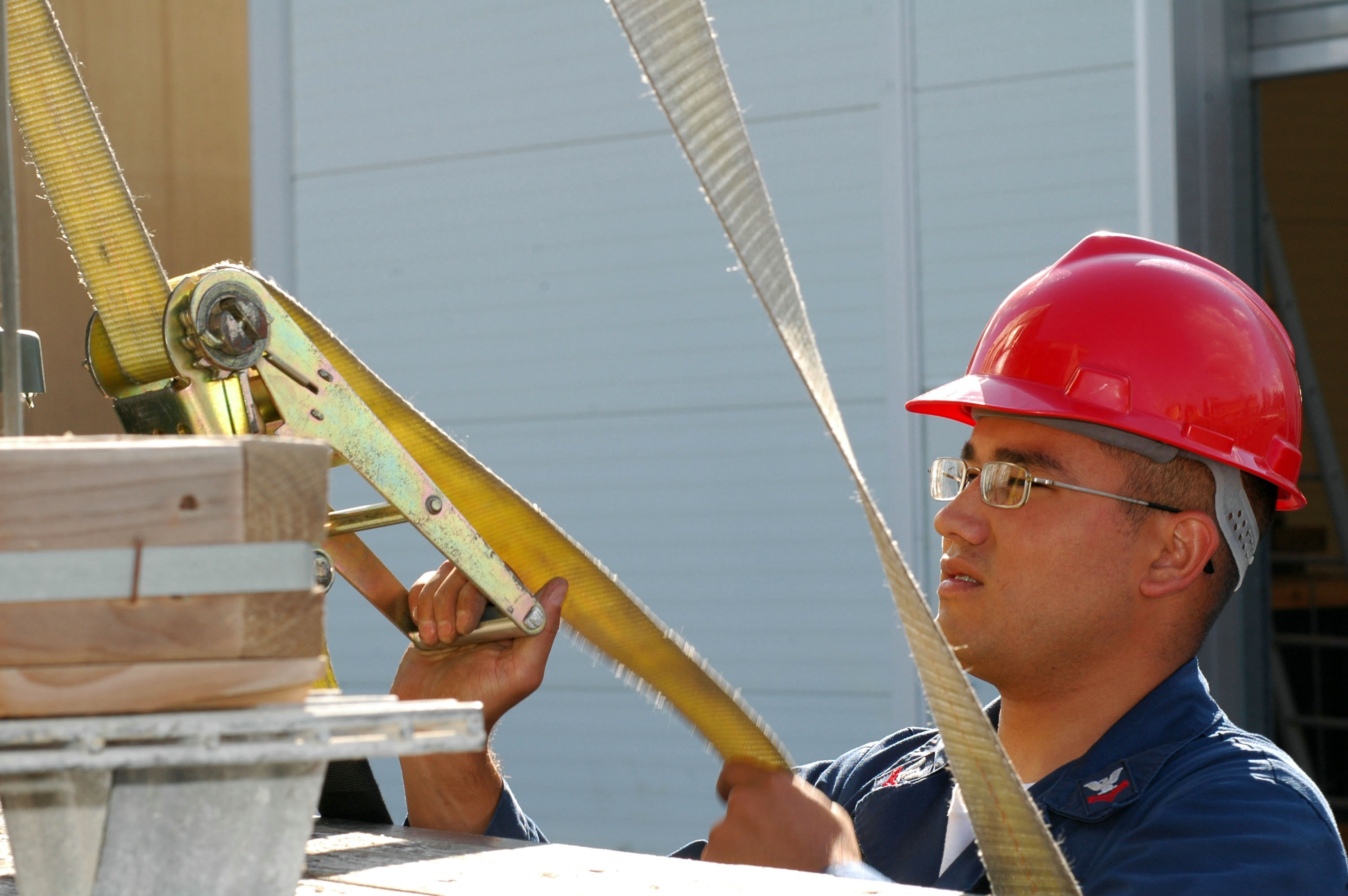 SIGONELLA, Sicily (Nov. 7, 2007) Aviation Ordnanceman 2nd Class Joseph Killgo wenches straps into place to secure inert weapon kits for transport from the Naval Air Station Sigonella weapons department. Sigonella provides logistical support for 6th Fleet and NATO forces in the Mediterranean Sea. U.S. Navy photo by Mass Communication Specialist 2nd Class Jason T. Poplin (RELEASED)